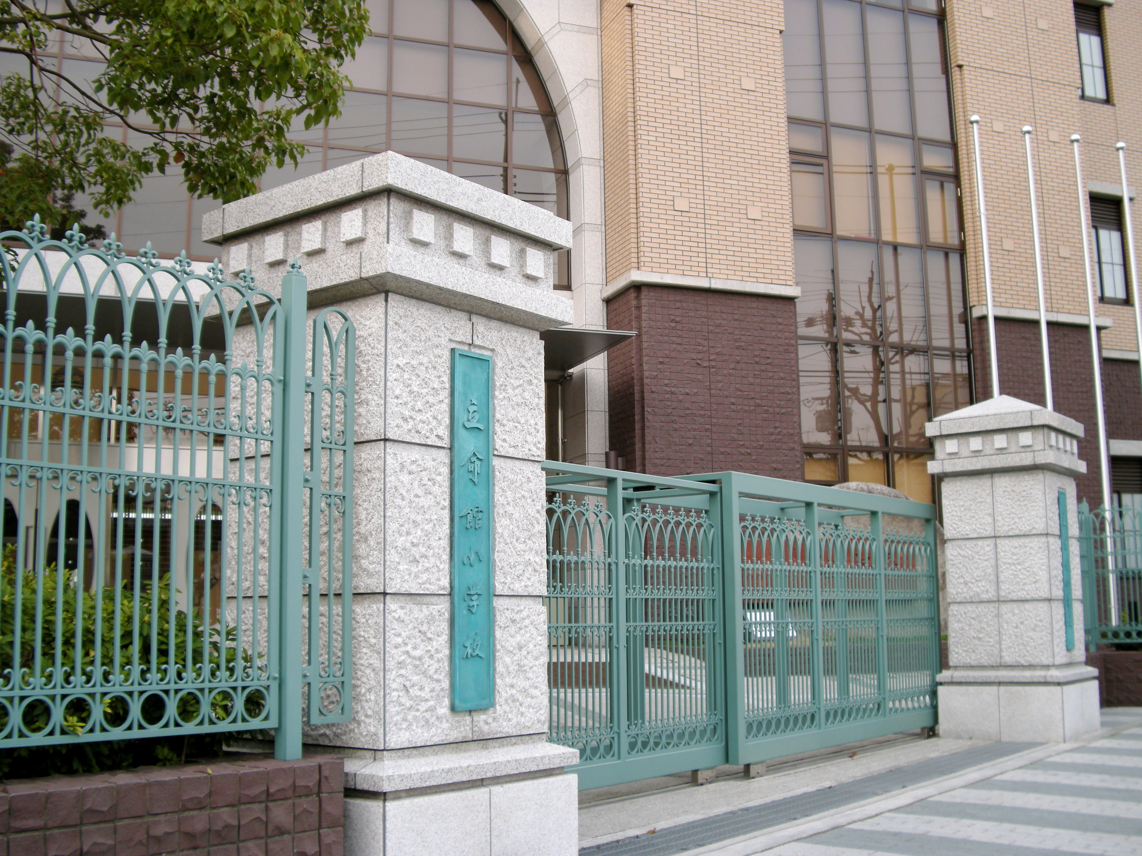 Gateposts of Ritsumeikan Primary School in Kyoto, Japan